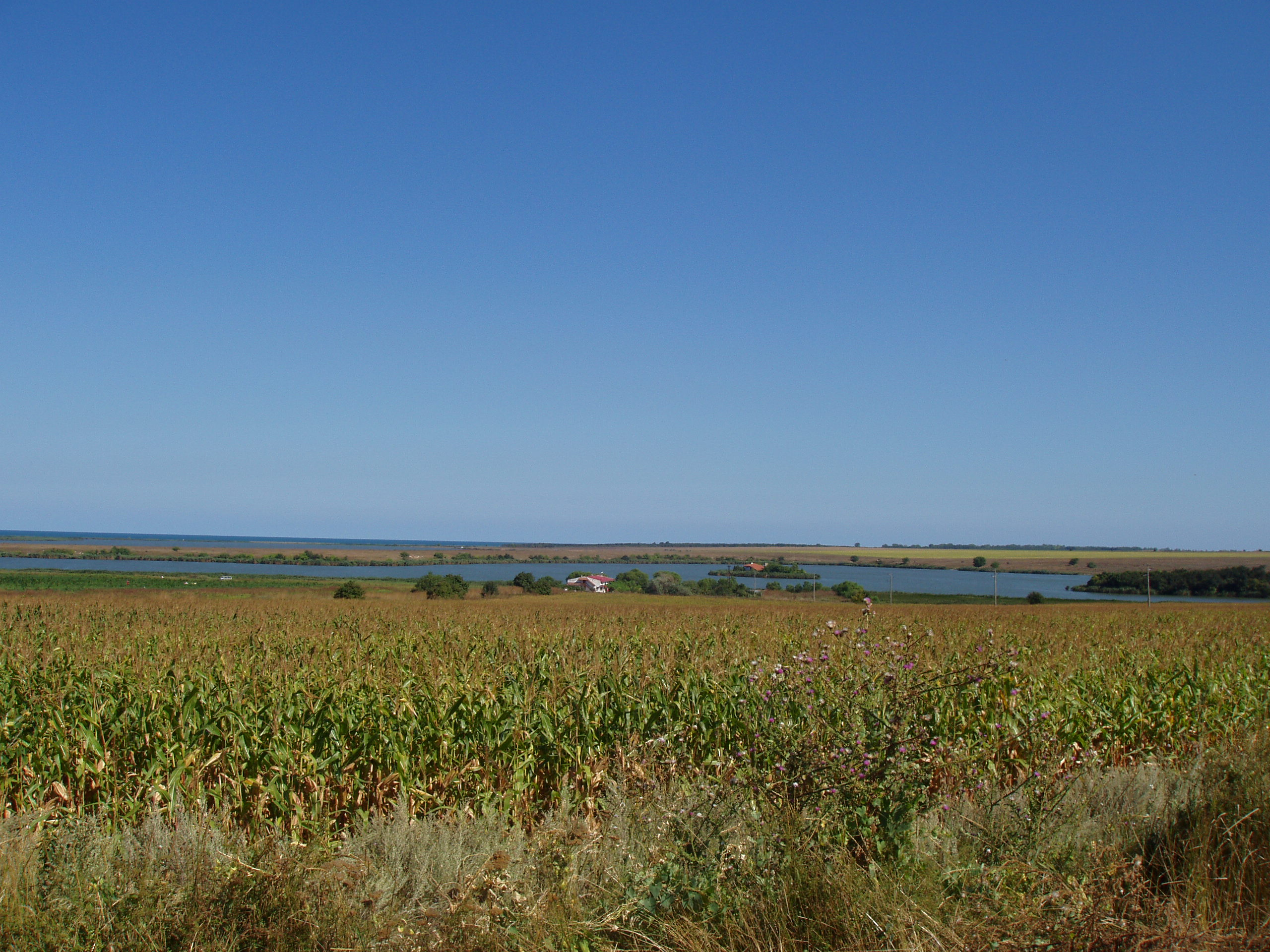 Durankulak lake in Bulgaria